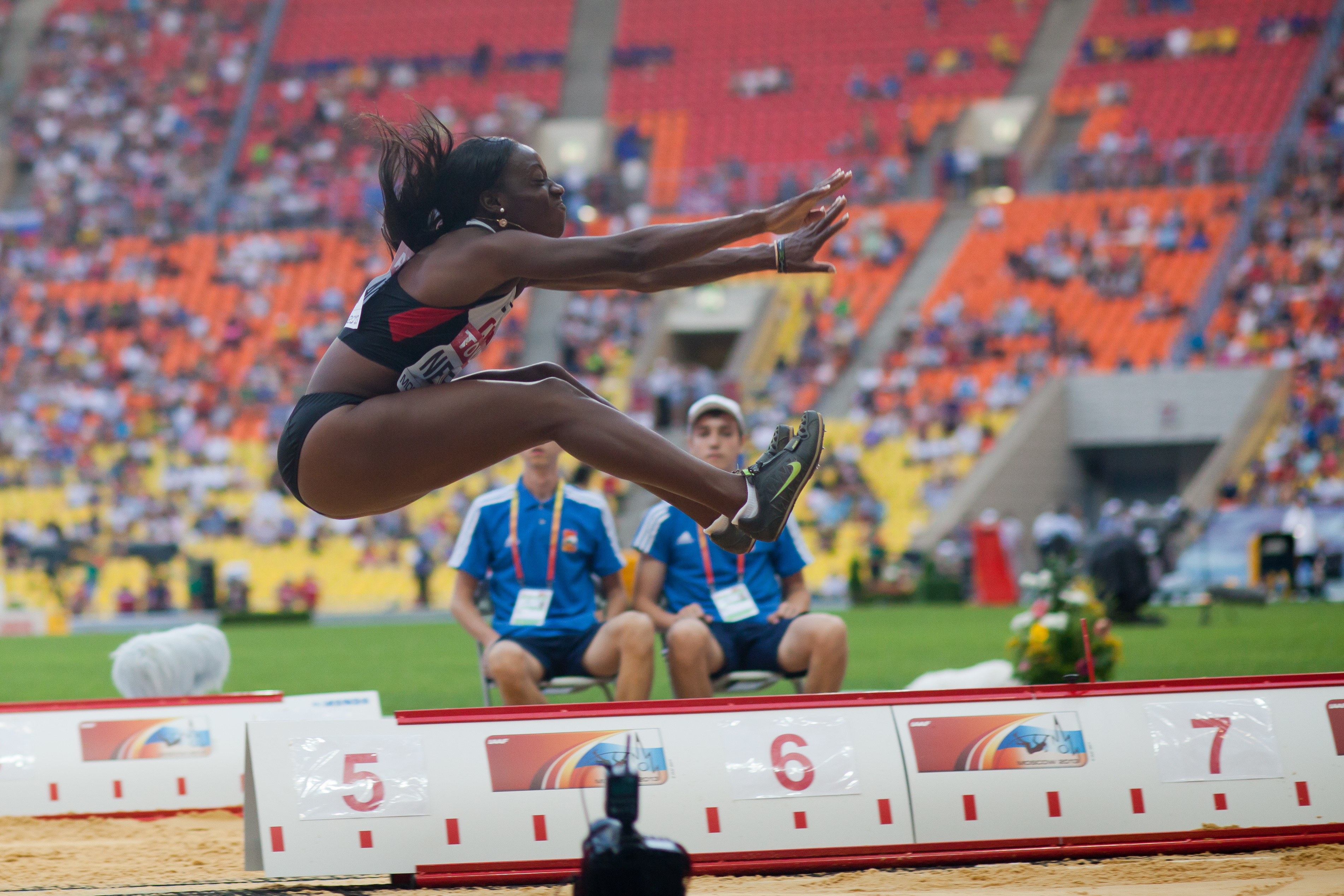 Christabel Nettey during 2013 World Championships in Athletics in Moscow.